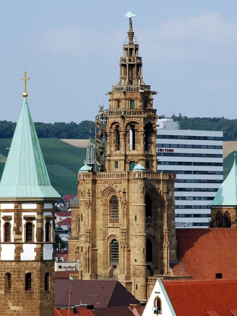 tower of church of St. Kilian in Heilbronn as seen from the Götzenturm.